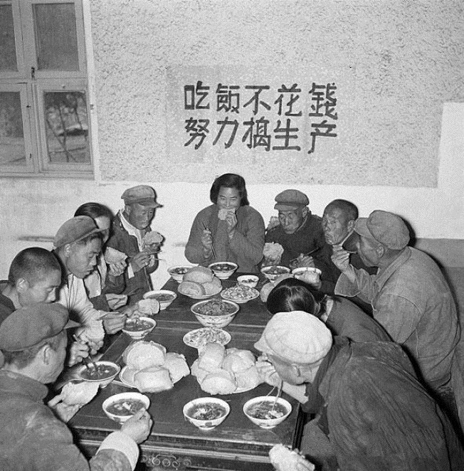 1958 People's commune free for all canteen, where members were supposed to be able to eat all they can eat.The slogan: Eating meal don't cost money, working hard to production.